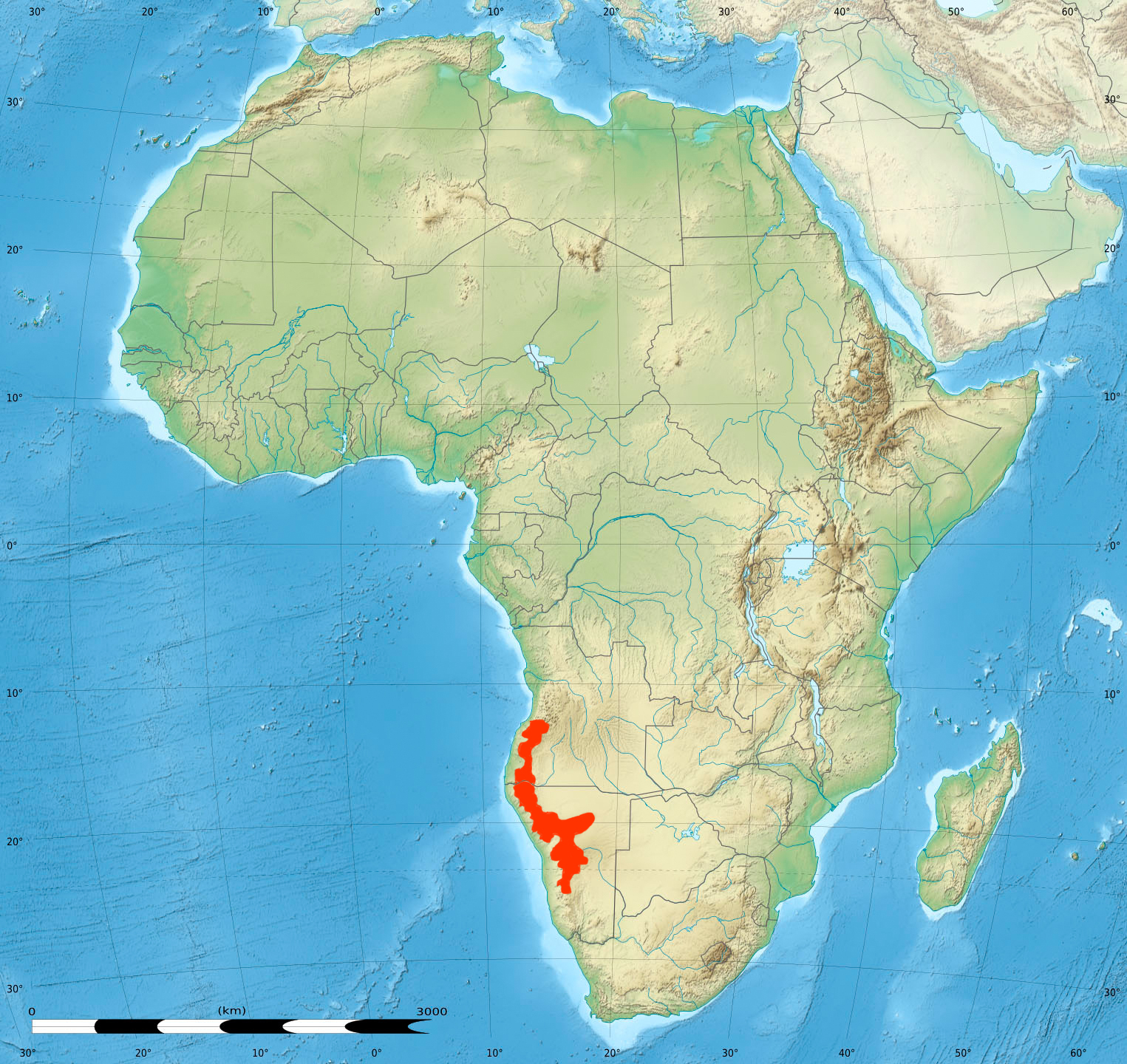 Approximate distribution of Anchieta's Dwarf Python or Angolan Python (Python anchietae). Based on: W. R. Branch, M. Griffin: Pythons in Namibia: Distribution, Conservation, and Captive Breeding Programs. Advances in Herpetoculture – Special Publications of the International Herpetological Symposium, Inc., 1996, S. 93-102. CITES Secretariat: Review of Python anchietae. in: Periodic Review of Animal Taxa in the Appendices – Evaluation of Speies selected at AC15. Doc. AC.16.8.1. Sixteenth meeting of the Animals Committee Shepherdstown, United States of America, 11-15 December 2000, S. 47-51, online, pdf. In consideration of mountain ranges and vegetation Original map source: File:Africa relief location map.jpg